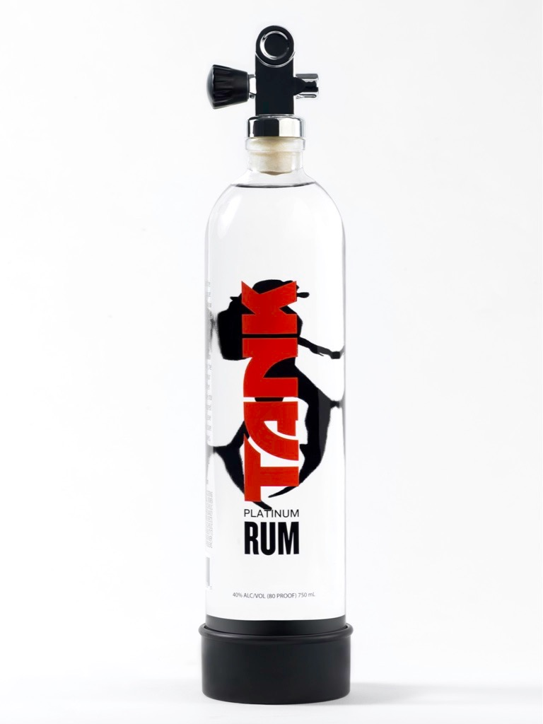 Front View of Tank Rum with distinctive scuba dive tank look-and-feel.